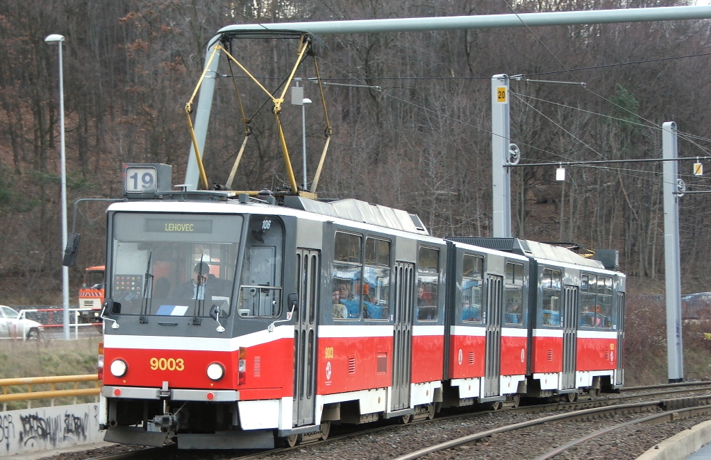 Tatra KT8D5, Krejcárek, Prague